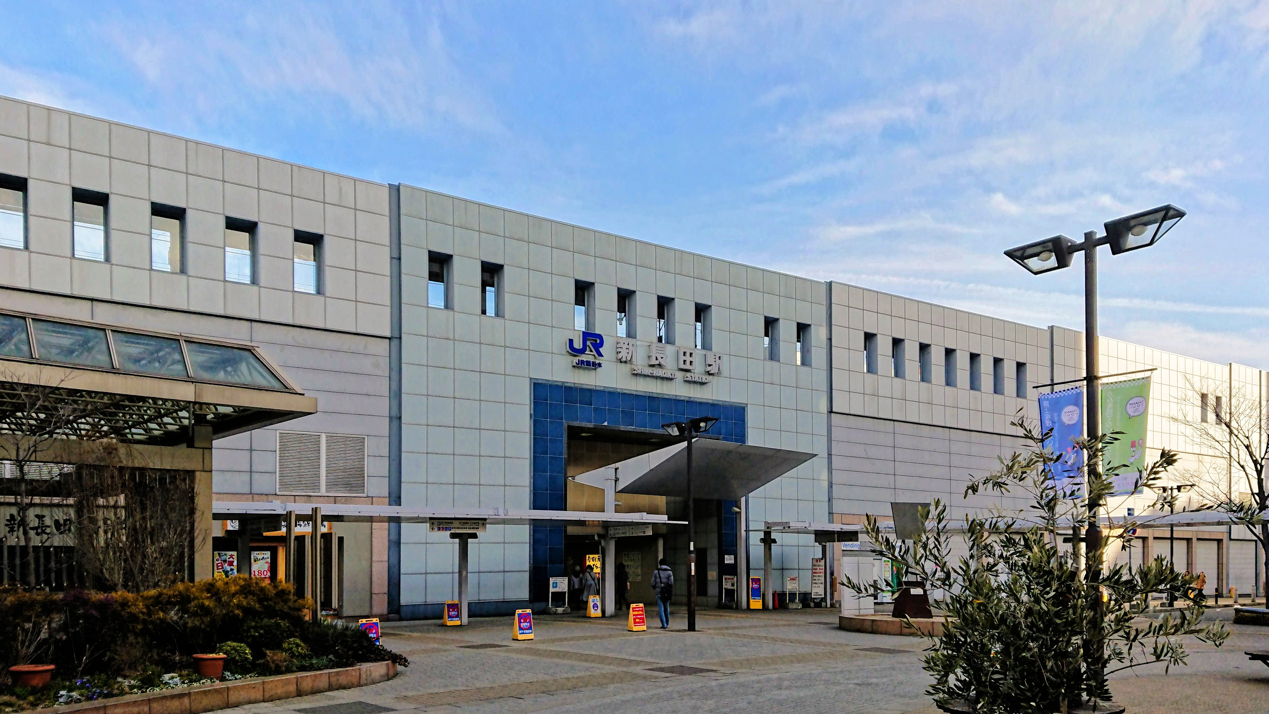 The south side of Shin-Nagata Station in Kobe, Japan